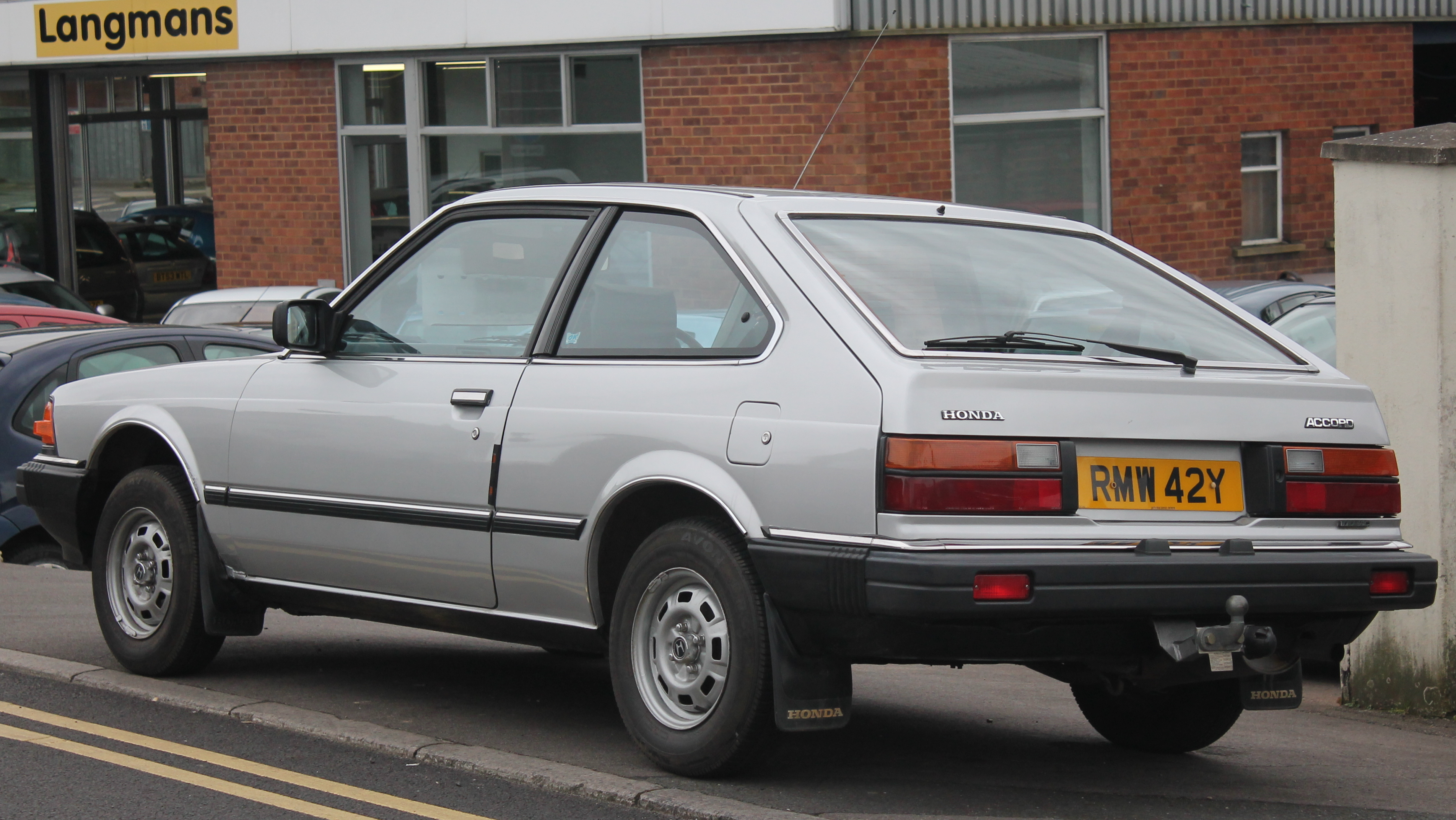 I'm going to leave you with this recent find. Tomorrow, I'm going to be travelling to Ghana, Africa for just under three months where I will be doing voluntary teaching. Due to the very isolated place of work, I'm very unlikely to be able to upload any finds in the time I'm away, so please don't think I've left for good! I'm taking my small and not so good camera with me to Ghana, and trusting it doesn't get stolen, I will hopefully find some really interesting old cars! I'd like to thank you all for viewing and taking an interest in my photos, I will hopefully be back in late June with some more uploads of old and unusual cars. Please stick with me! Also, wish me luck! It'll be my first time out of Europe, so a whole new experience. I'm certainly looking forward to it. See you all later and thank you to everyone! Charlie This is a 1982 Honda Accord three door hatchback , and is one of 3 on the roads, 1 other being from 1982. At the time of the photo, it was for sale at this garage in Trowbridge, Wiltshire for £995, a bit of a bargain, I'm sure! Goodbye for now...